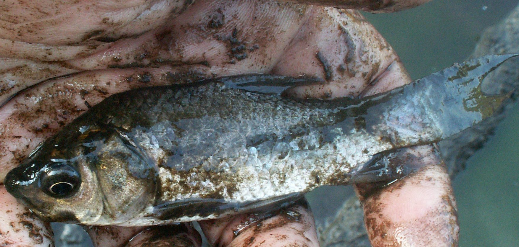 Hungerform ofCarassius gibelio, these fish were trapped by the drought in a small pond at the Brunssummerheide. Don't introduce goldfish in natural waters!